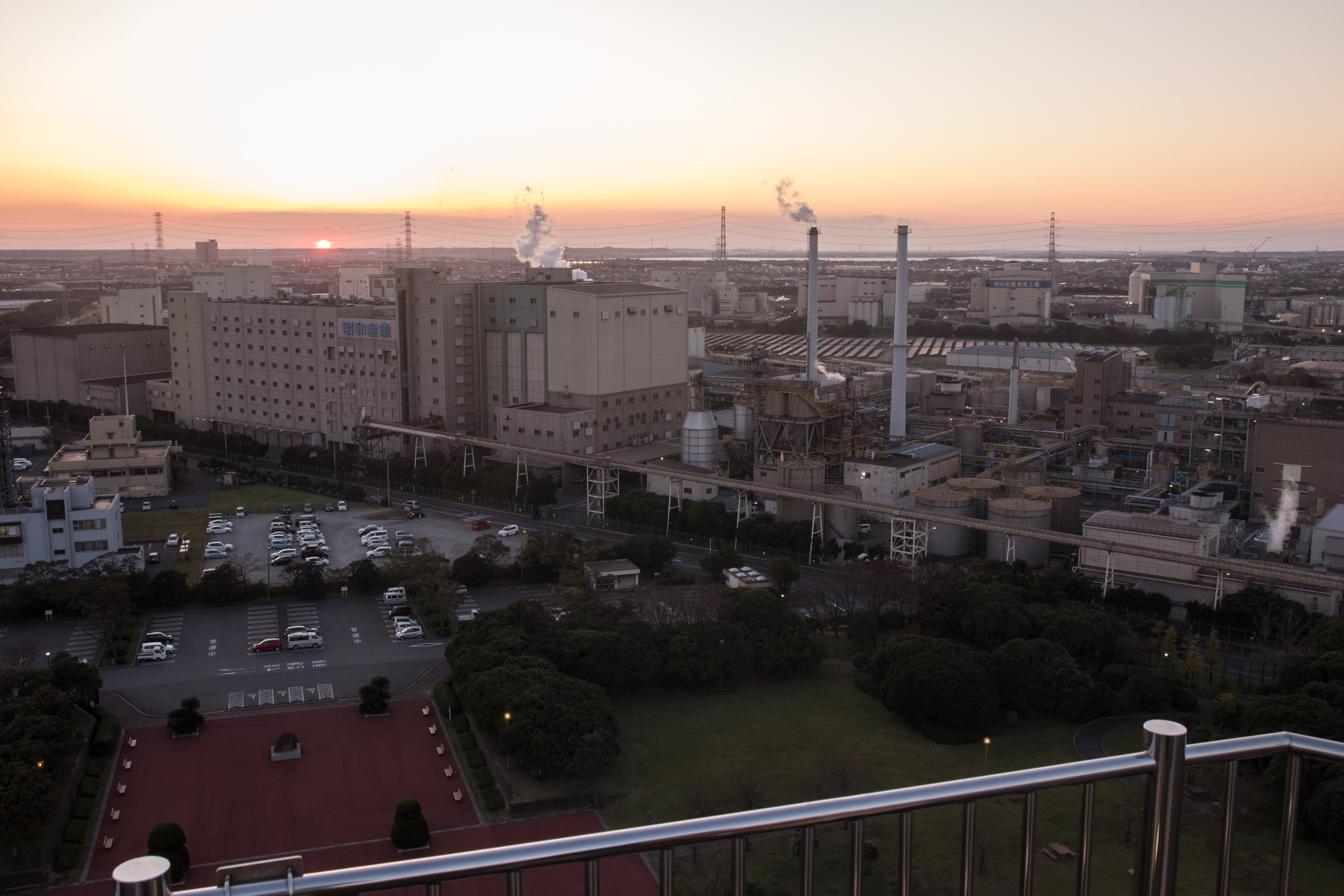 Showa Sangyo Kashima Factory, Kamisu City, Ibaraki Pref., Japan